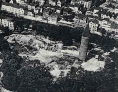 Opole's old piastowski tower, after demolishion of the castle in 1928-1930.